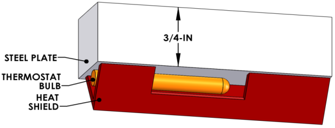 CAD rendering of typical thermostat mounting technique - bottom mount